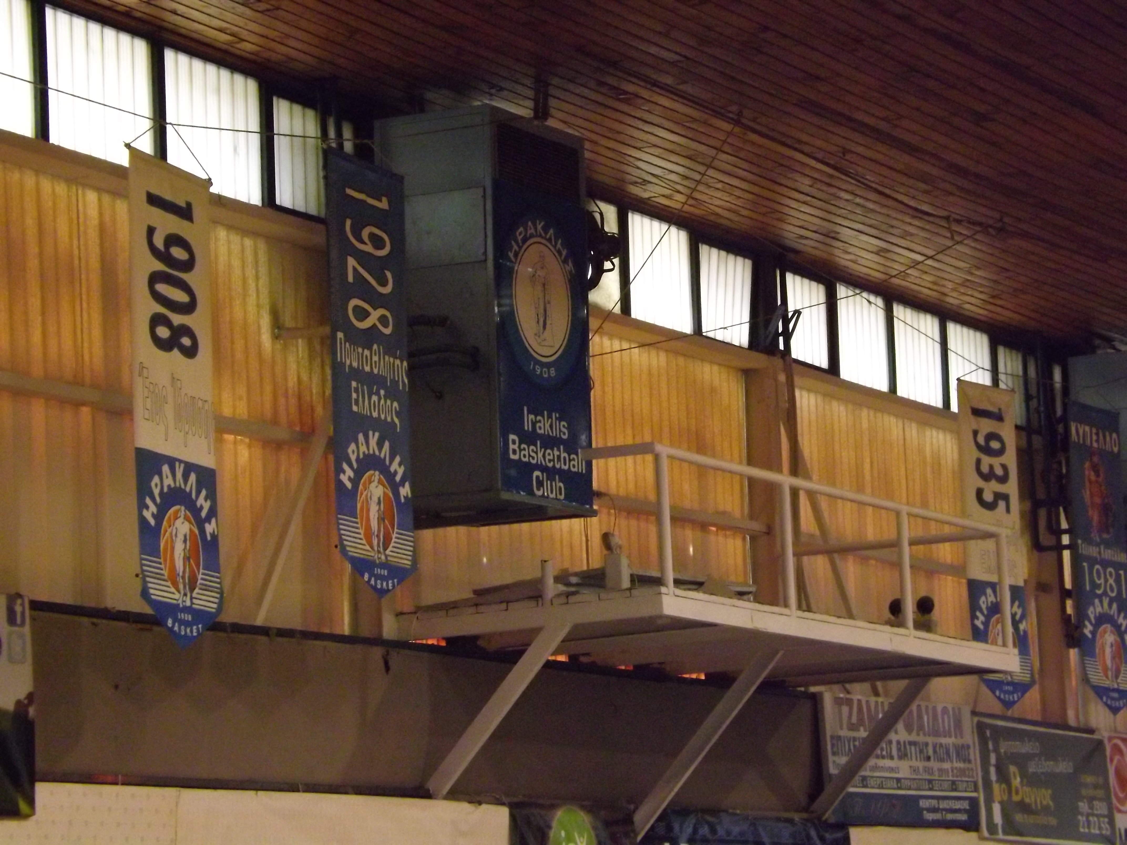 Banners in Ivanofeio Indoor Arena, commemorating the championships of Iraklis BC in 1928 and 1935.